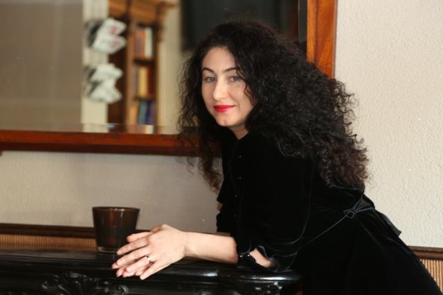 Portrait of the author, director and journalist Güzin Kar, photographed by Barbara Sigg.